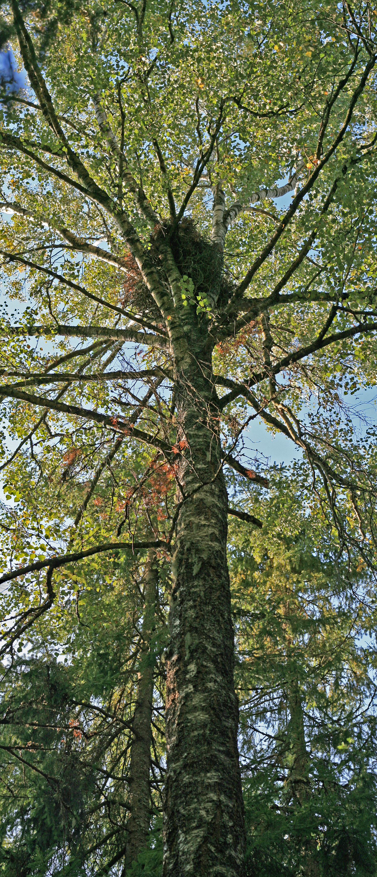 Goshawk's nest in old birch tree. Norway.